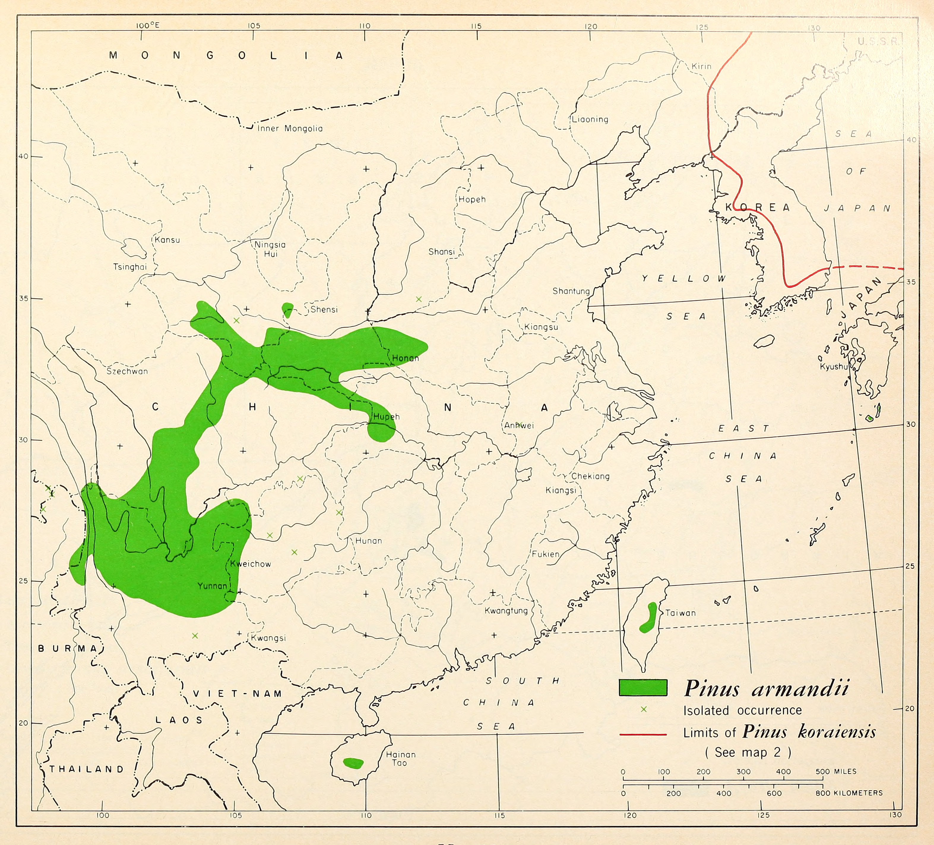 Map. 11 Pinus armandii distribution